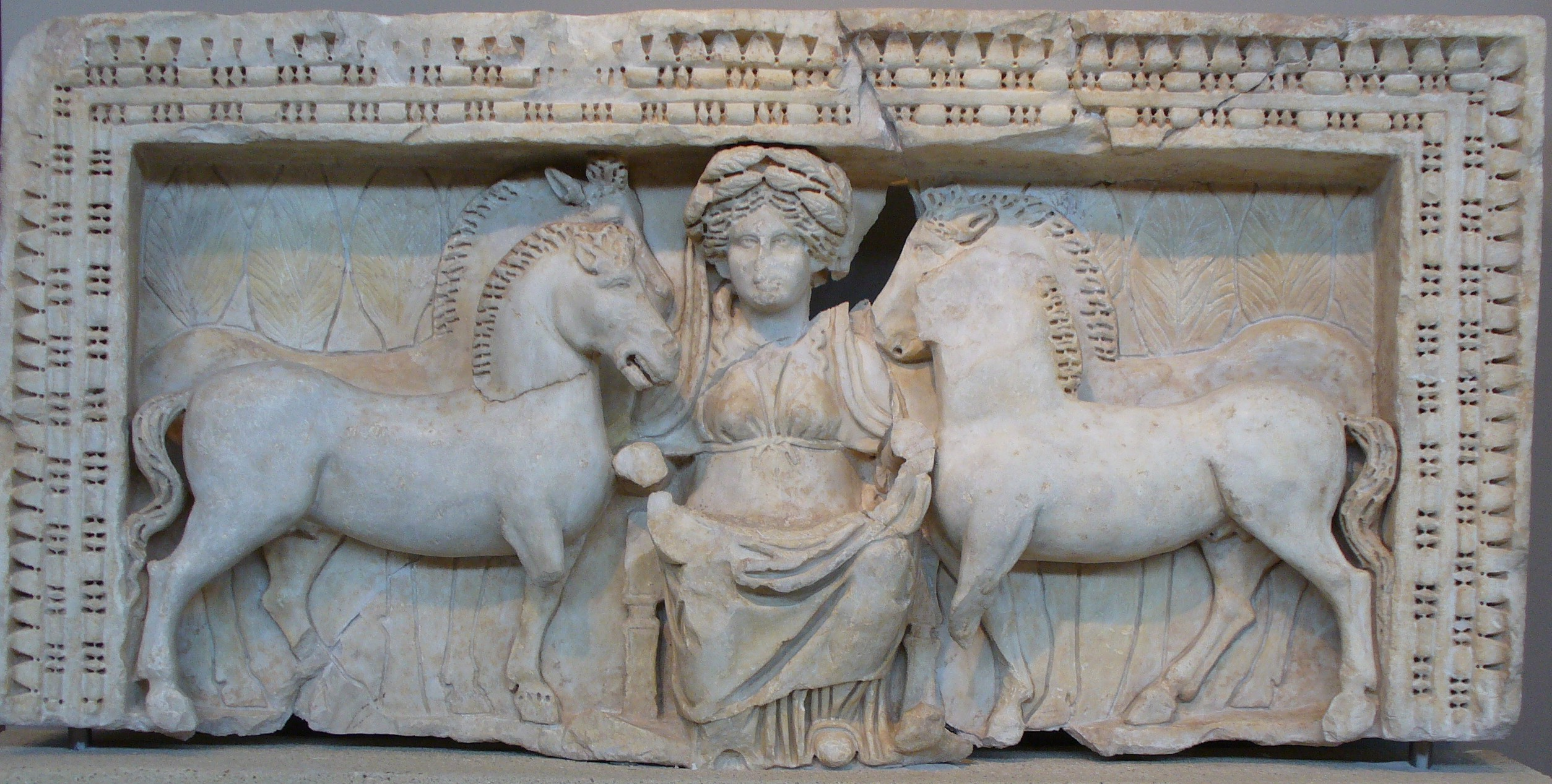 A relief of the Gaulish horse goddess Epona from Salonica, Greek Macedonia, 4th century CE. According to the museum's label, Roman emperor Galerius may have been responsible for introducing the worship of Epona at Salonica.